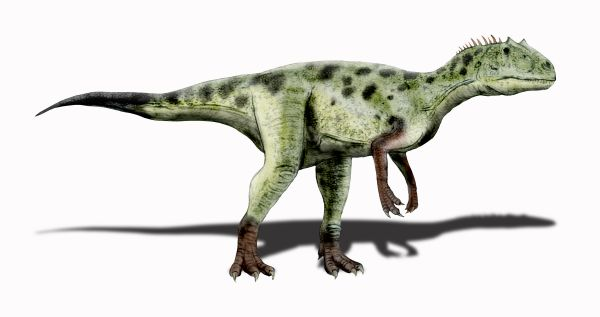 Piatnitskysaurus